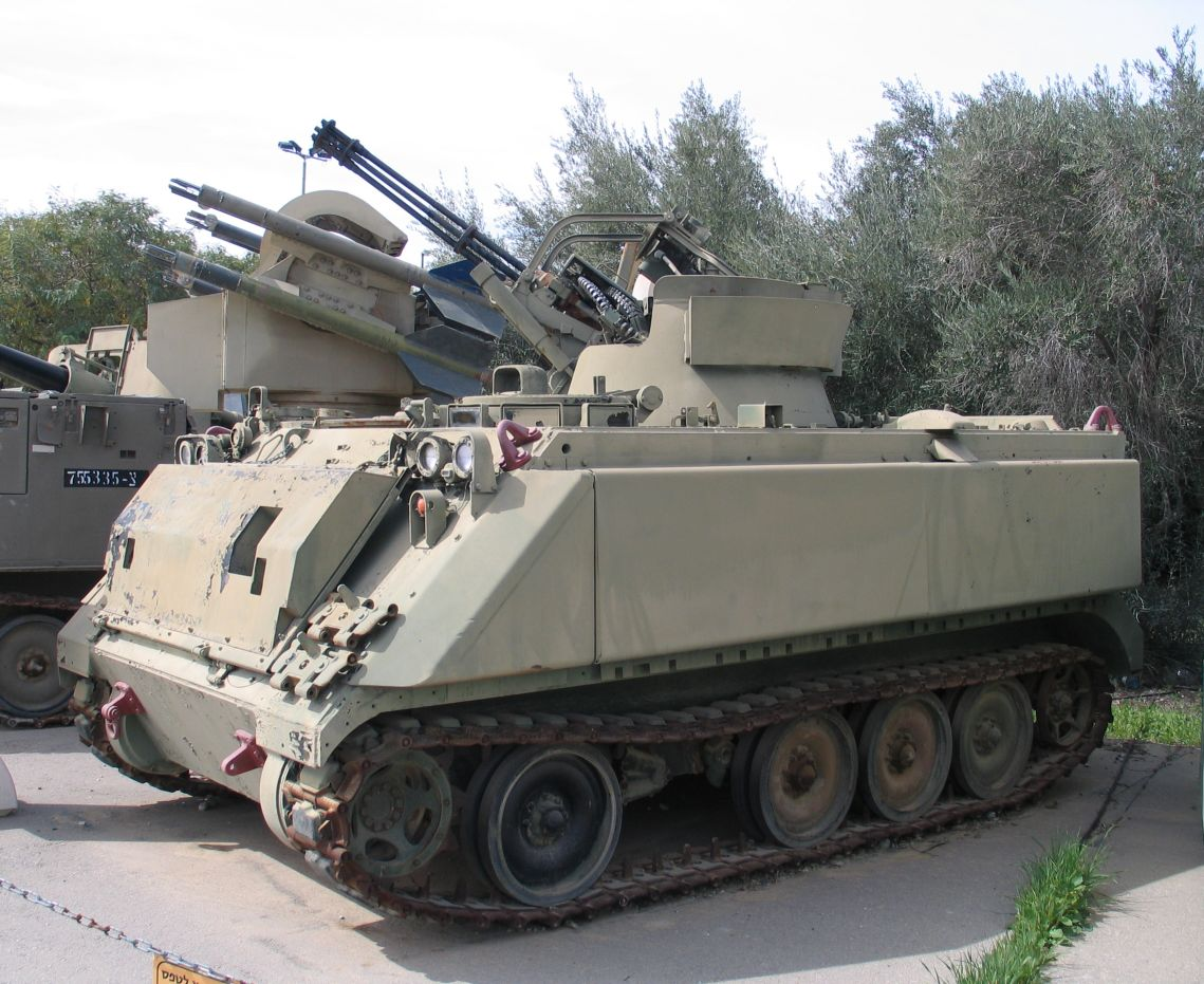 Description: M163 VADS air defence vehicle at Muzeyon Heyl ha-Avir, Hatzerim airbase, Israel. 2006. Source: Photo by me, User:Bukvoed.